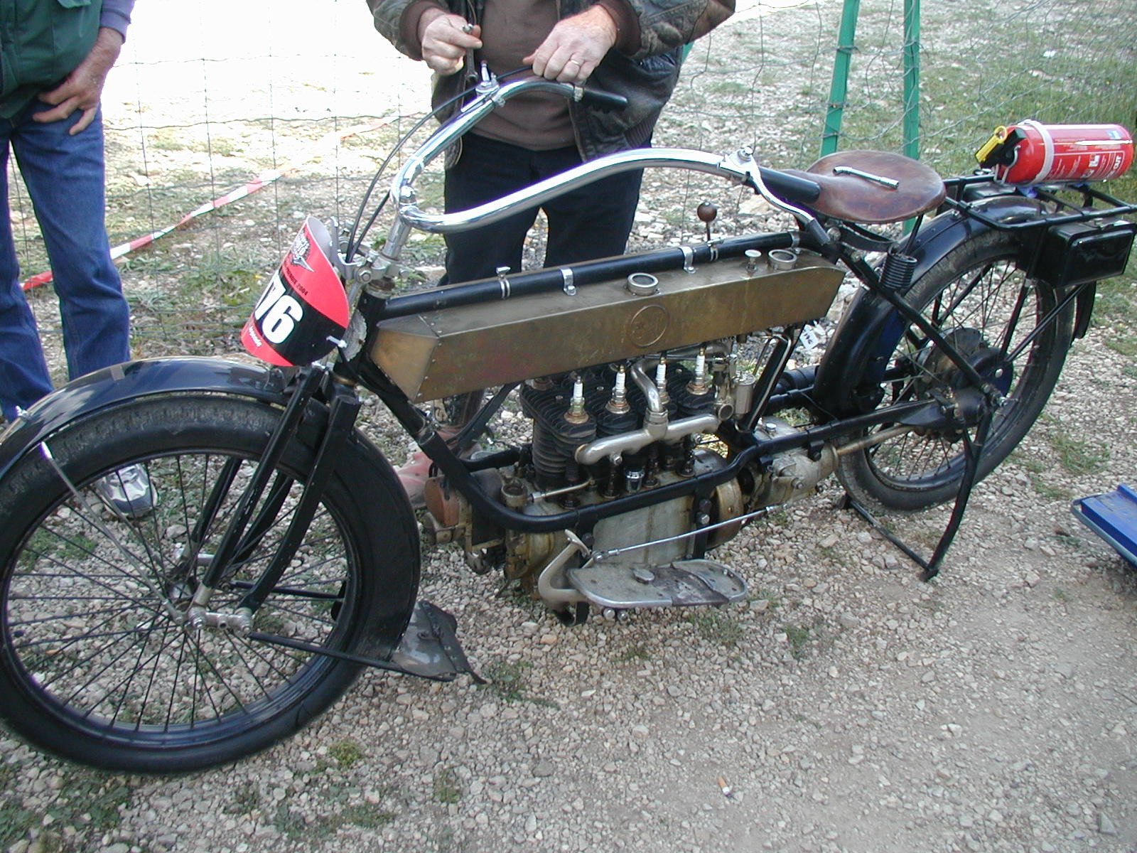 Old Belgian 4 cylinder FN Motorcycle Picture : Gérard Delafond